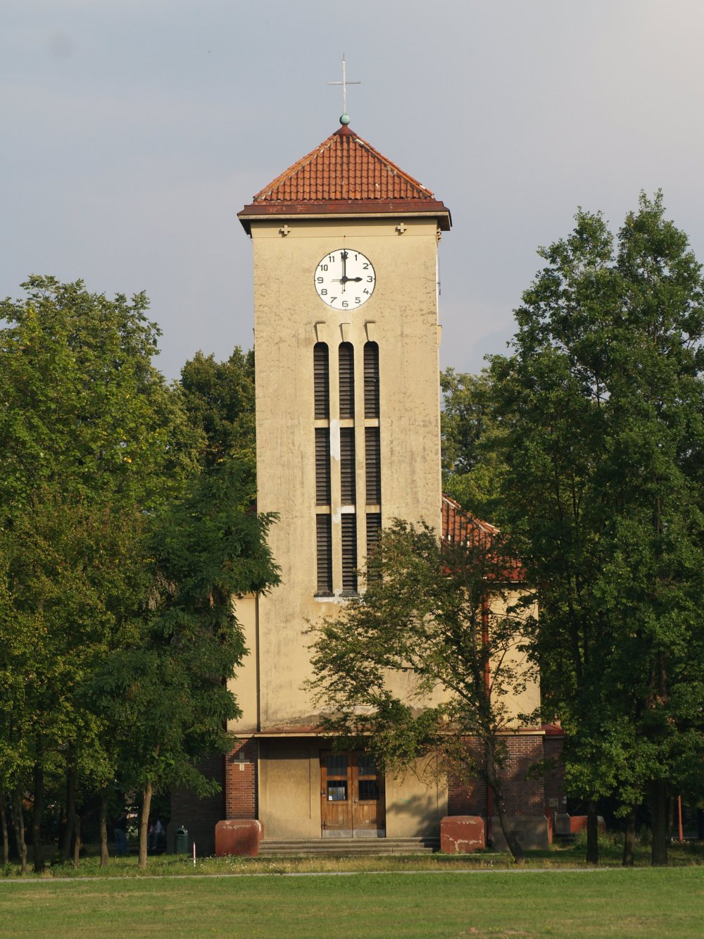 Church of St Agnes of Bohemia from 1935 in České Velenice, Jindřichův Hradec Distict, Czech Republic.